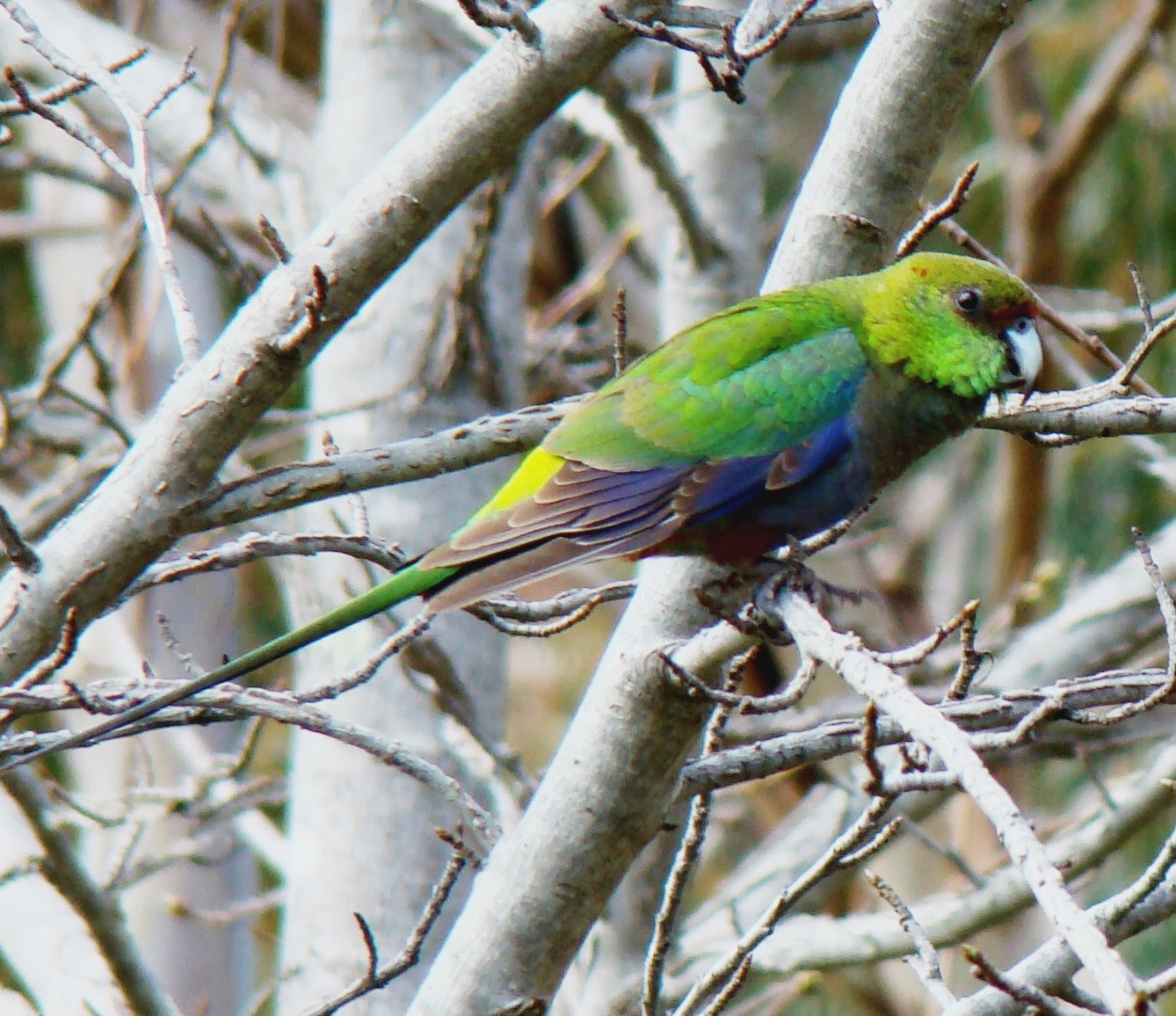 A juvenile Red-capped Parrot at Araluen Golf Club, Perth, Western Australia, Australia.